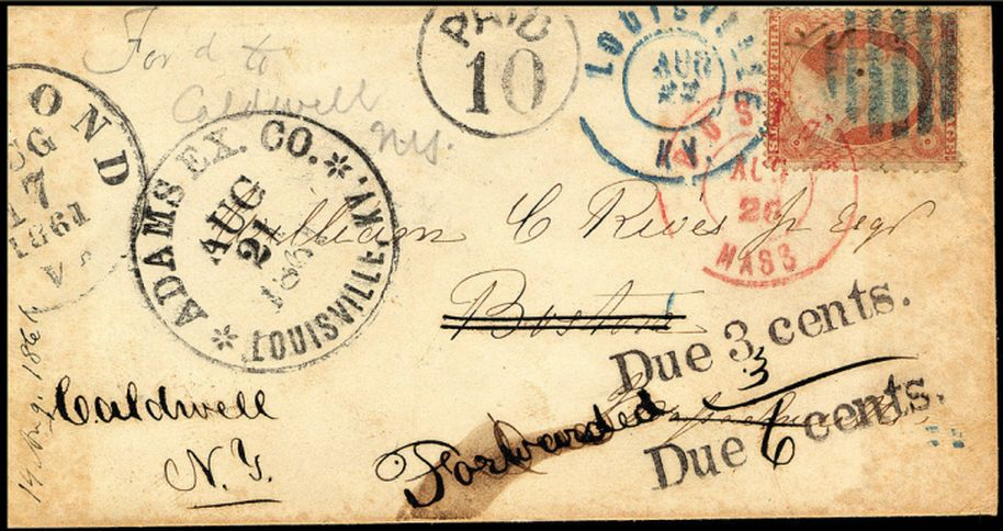 US Postage on a cover addressed to a "William C Rives Jr Esqr" formerly of Boston, forwarded to Caldwell, N.J., with Louisville, Ky. and Adams Express Company postmarks, 1861. When mail was no longer delivered between the North and South after the Civil War began, express companies would instead carry the mail across the lines. The three major express companies were Adams Express, American Letter Express, and Whiteside's Express. This would continue for about two months before the U.S. Post Office ordered an end to mail delivery to the Confederate States, effective August 26, 1861. Thereafter, mail had to be sent by Flag-of-Truce mail, although express companies continued to do some illegal business.